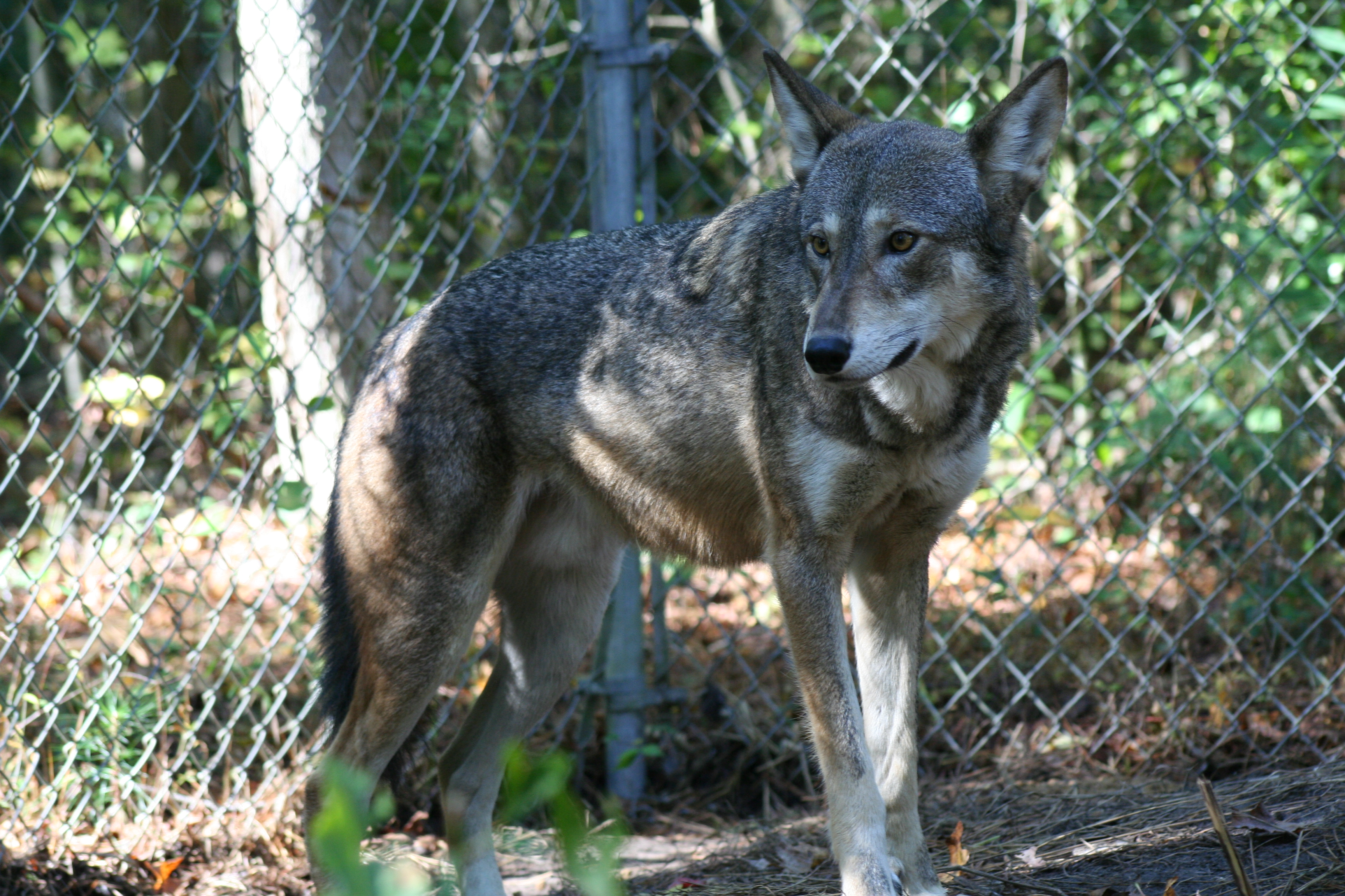 Male Red wolf (Canis rufus) standing in front of a fence.